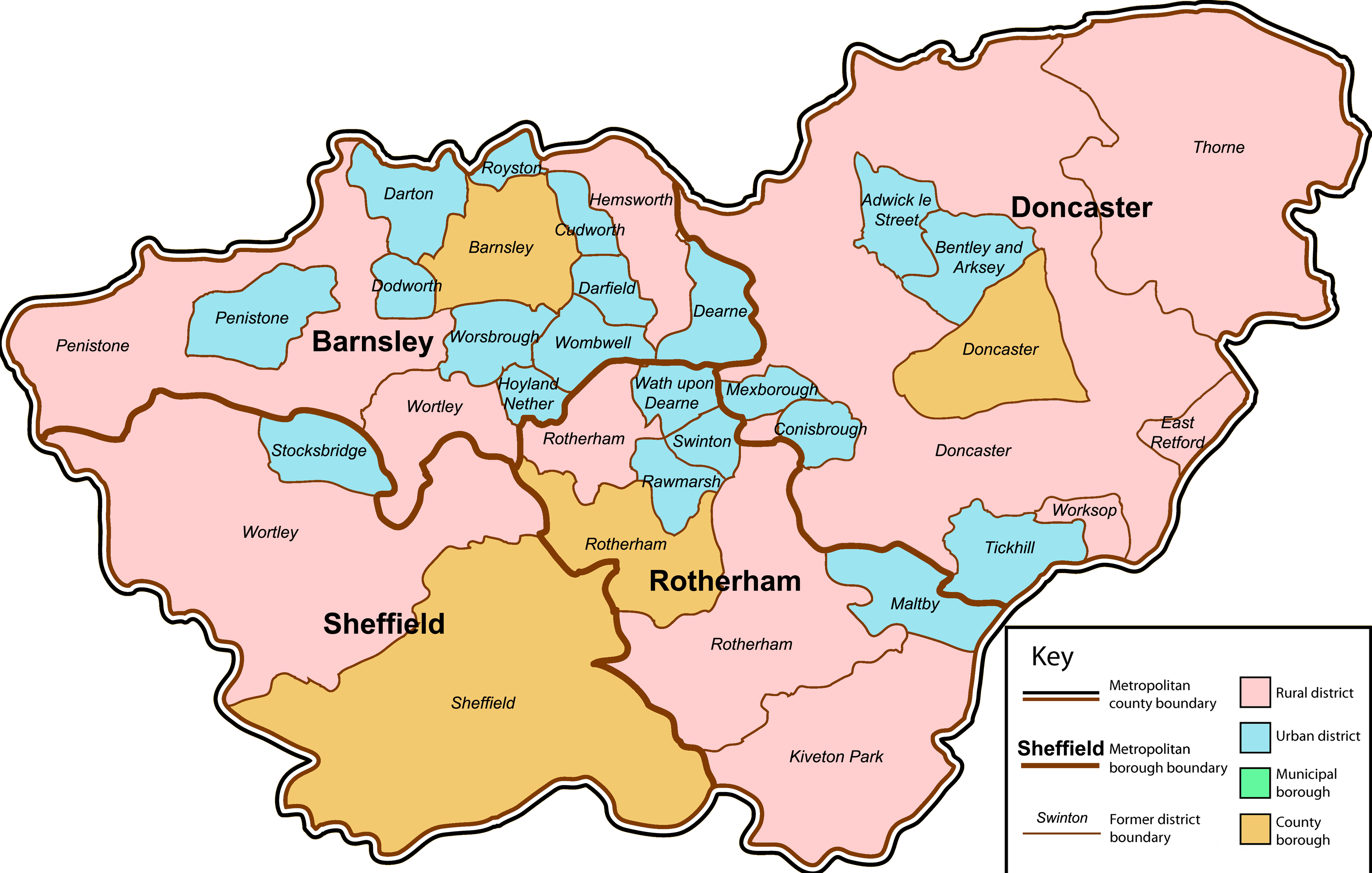 A map of the metropolitan county of South Yorkshire, England. This map shows former and modern district boundaries - see key for explanation.